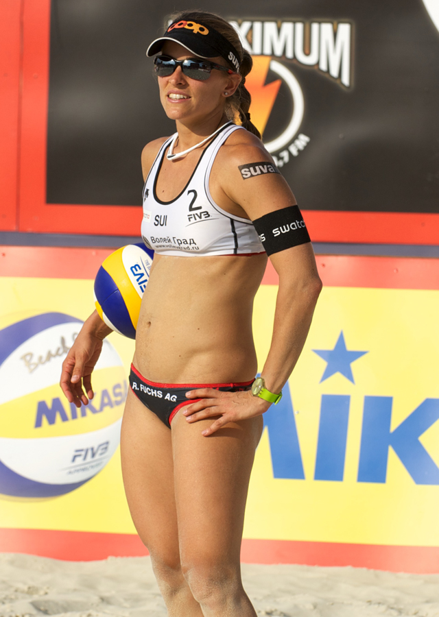 Grand Slam Moscow 2011